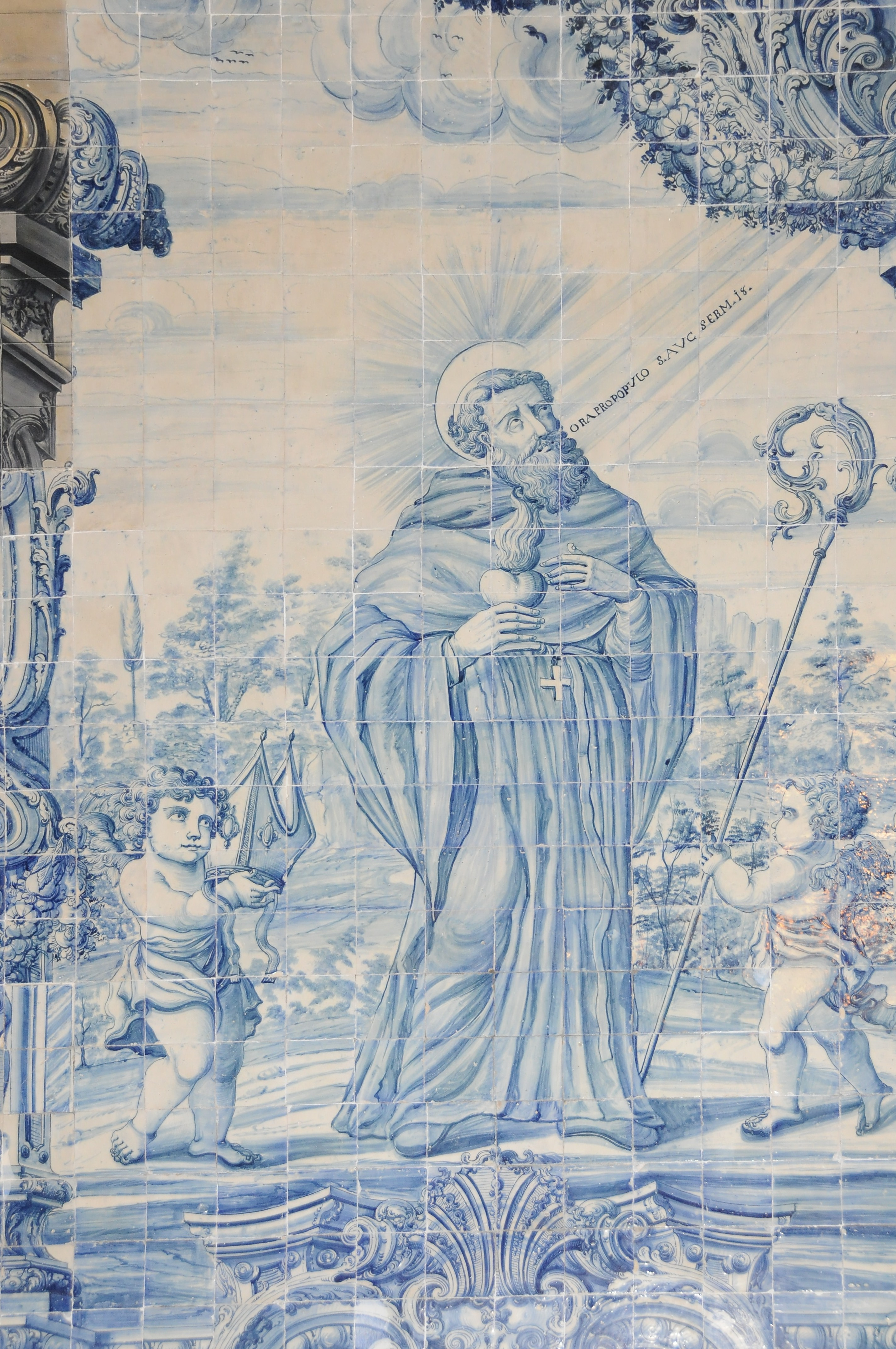 Azulejos in Populo Church, Braga, Portugal.